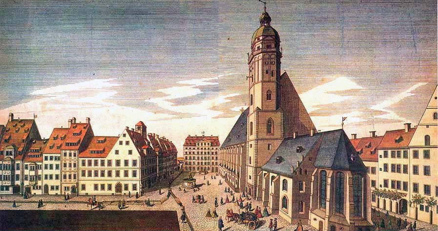 Engraving of 1735 showing the Thomas Schule (distant centre) and Thomas Kirche (right) in the town of Leipzig.